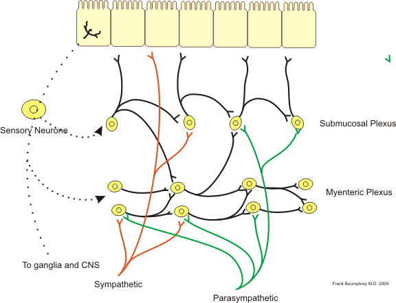 Illustration of neural control of gut wall by sympathetic, parasympathetic and Enteric Nervous system